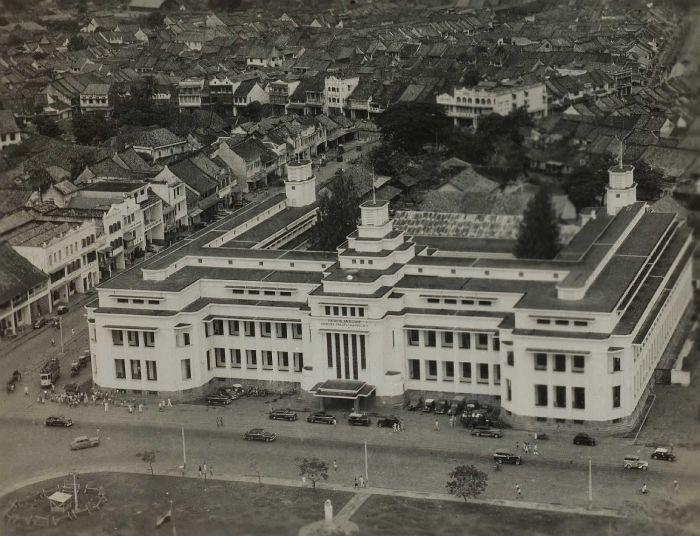 Air photo of the NHM building at Djakarta's Kota area